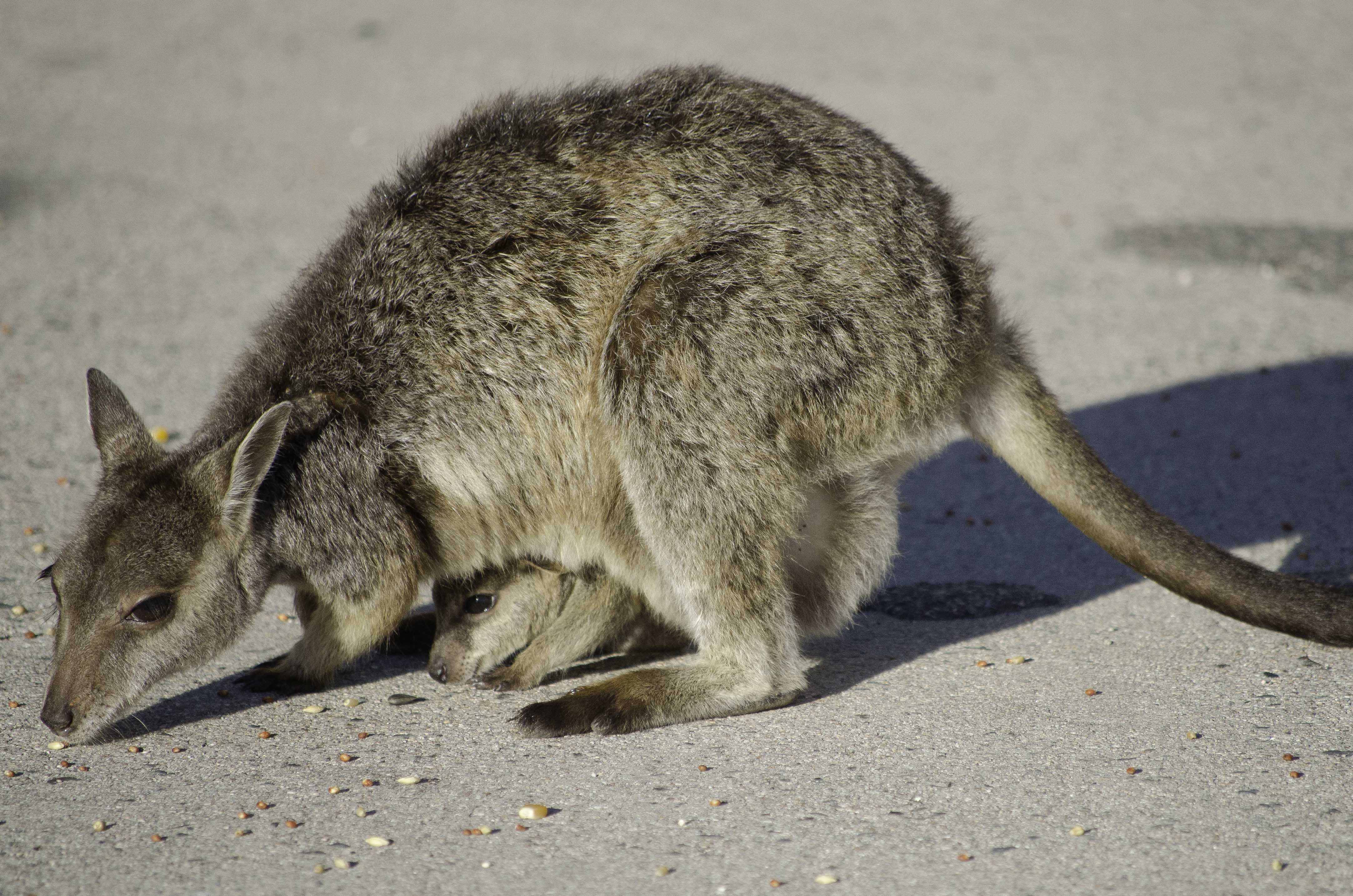 Pretty-Faced Rock Wallaby